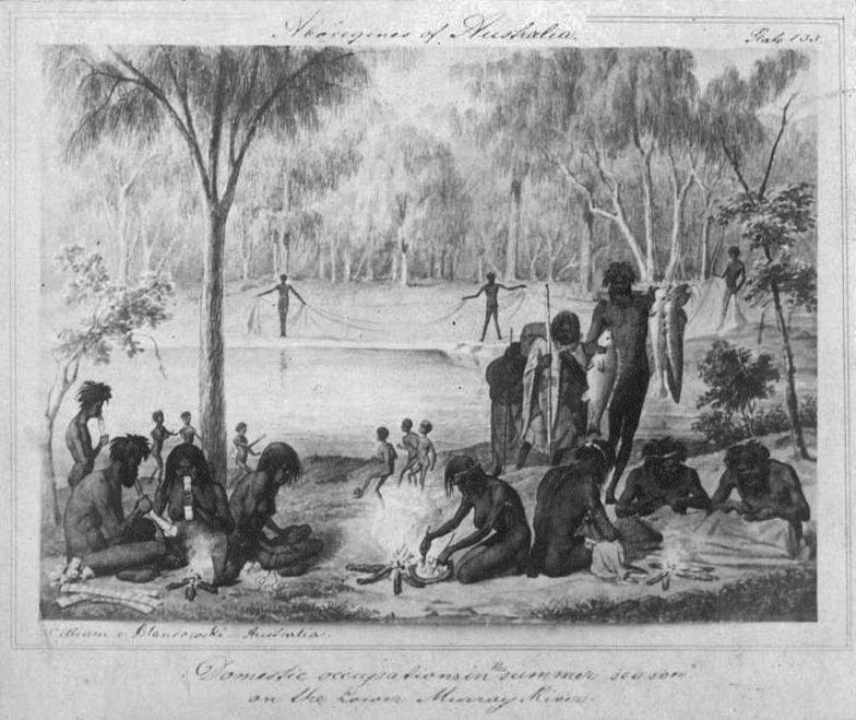 Aboriginal domestic scene. The etching was executed by German artist Gustav Mützel, who worked from the sketches of German explorer Johan Wilhelm Theodor Ludwig von Blandowski (see Marn Grook: name of the early australian football game).